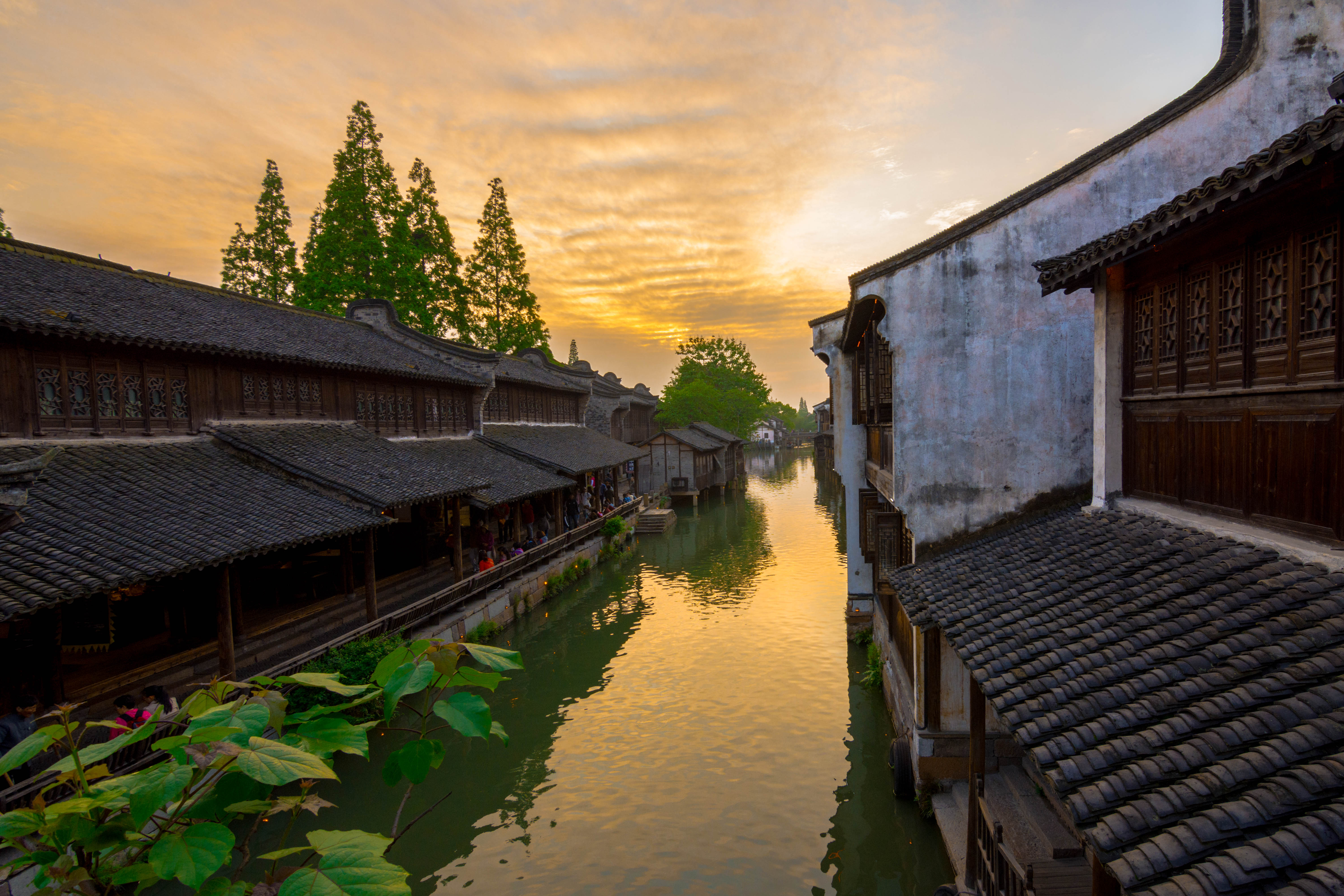 Zhouzhuang water town in China.